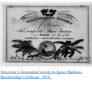 American Colonization Society membership certificate, 1833